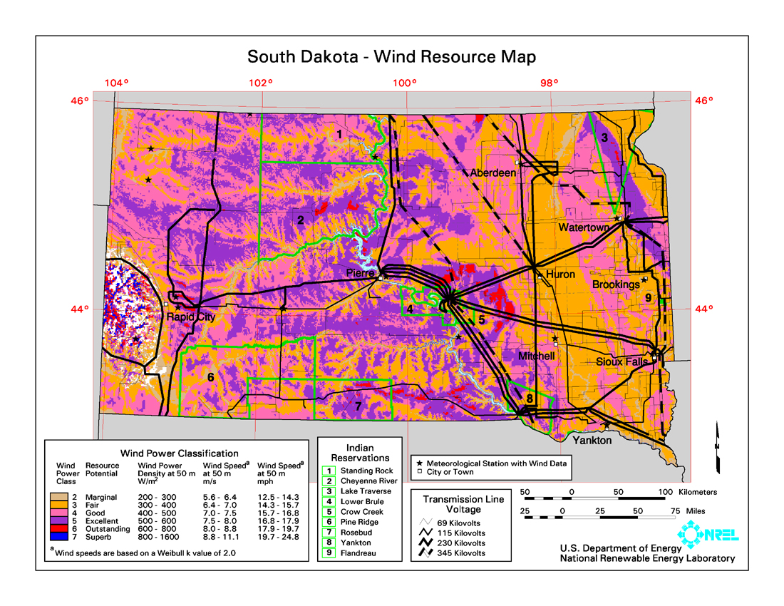 Average annual wind power distribution for South Dakota, 50m height above ground, also showing location of existing electrical transmission lines